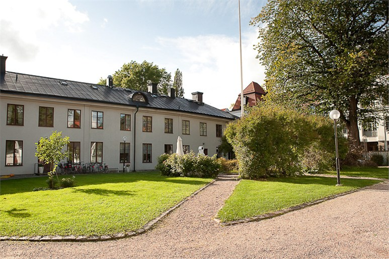 Grillska Gården, Uppsala.